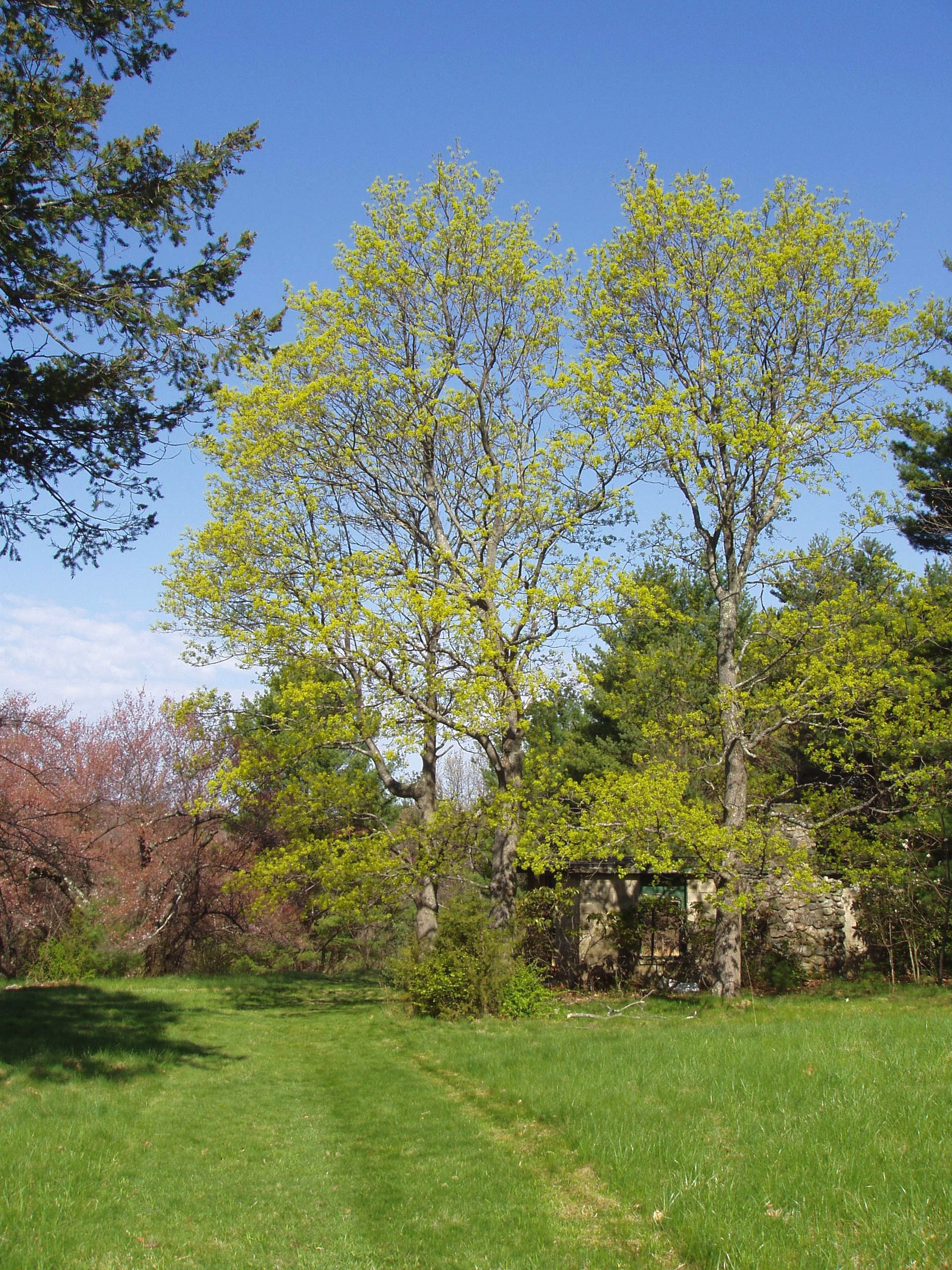 Case Estates, Weston, Massachusetts - General view. Photograph taken by me, April 27, 2006.